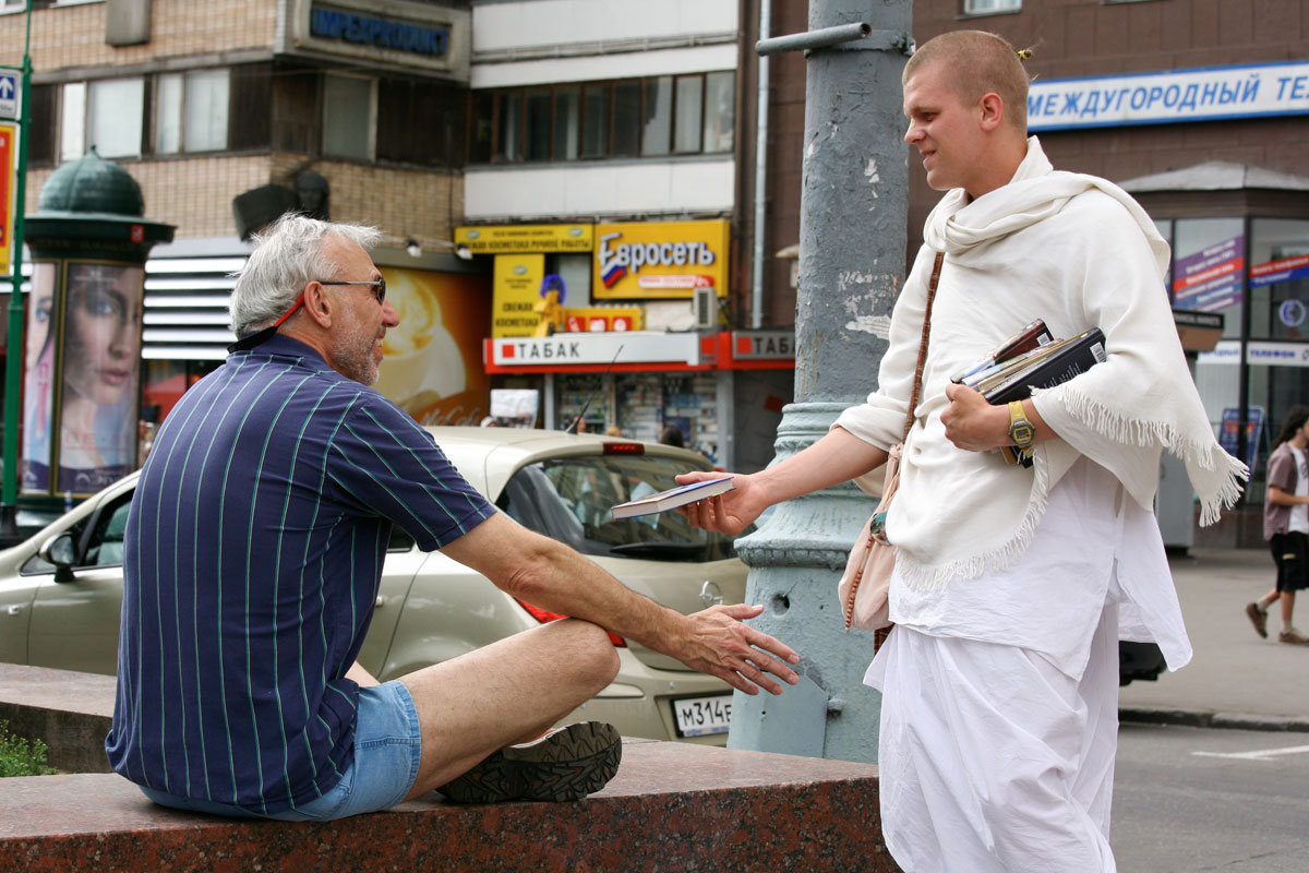 Russian Hare Krishna devotee distributing books in Moscow